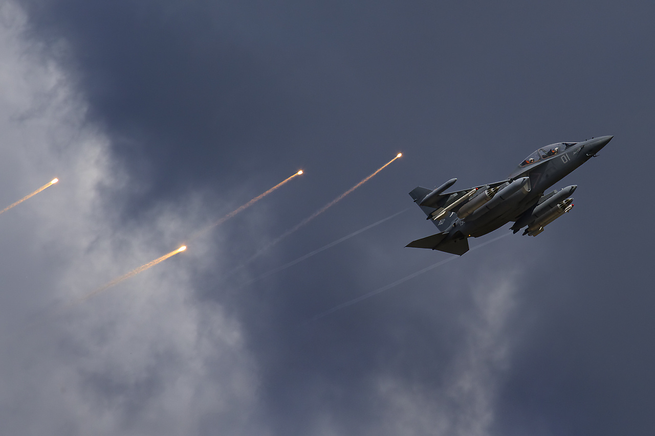 Yakovlev Yak-130 advanced jet trainer during test flights before MAKS-2009 airshow